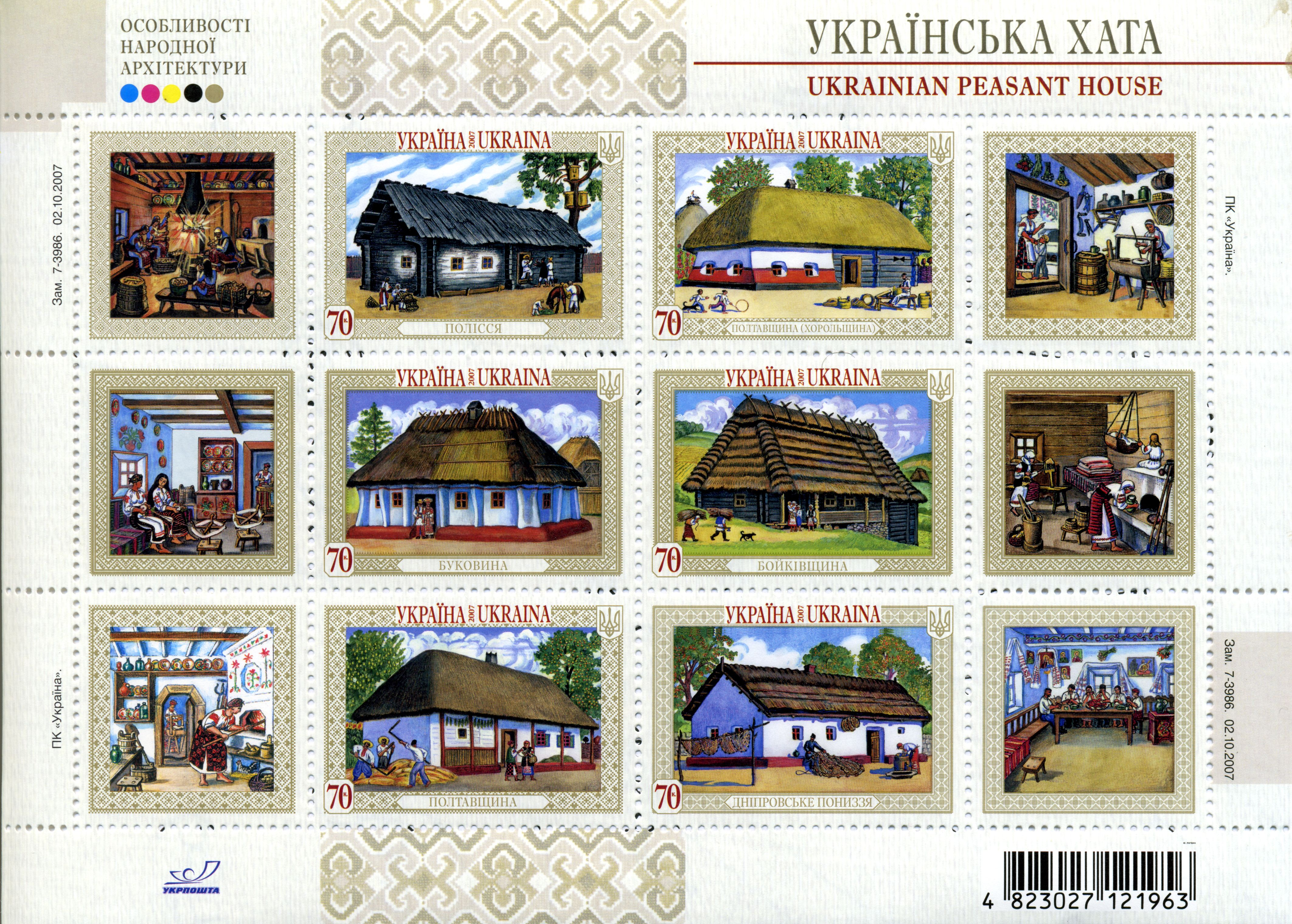 UkrPoshta stamp block imaging the Ukrainian khatas diversity by region.